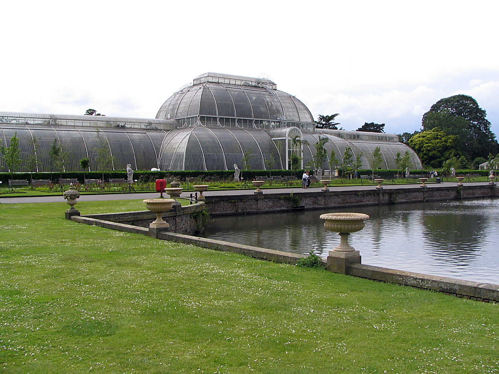 Palm house in Kew botanical garden